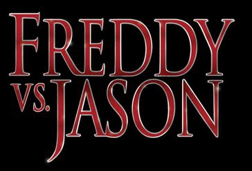 This is the official logo of the movie "Freddy vs. jason" from 2003! It's the eighth Movie of the A Nightmare on Elm Street-Series!